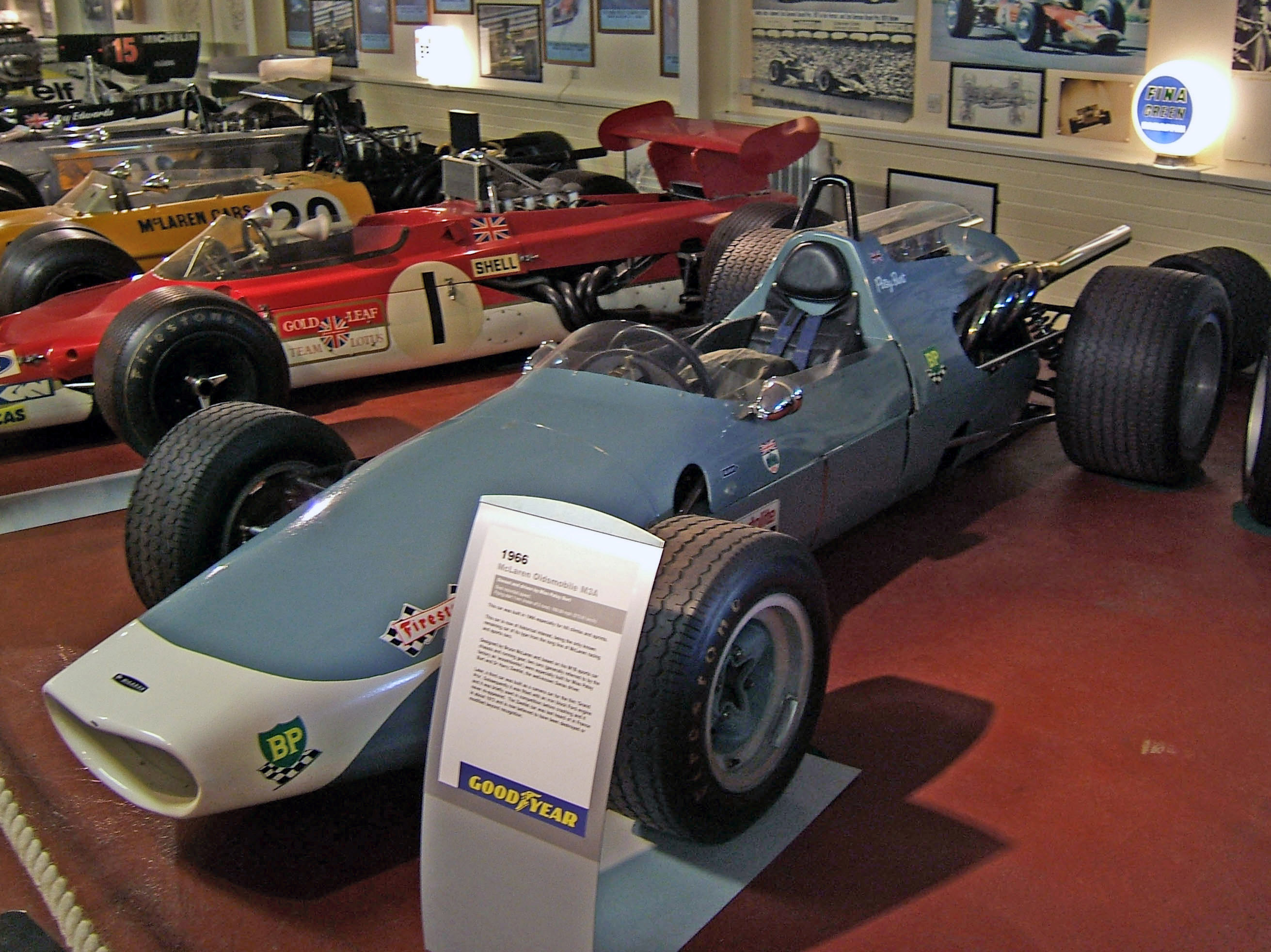 The sole-surviving McLaren M3A - Oldsmobile F5000 car. At the Donington Grand Prix Collection museum, Leics., UK.